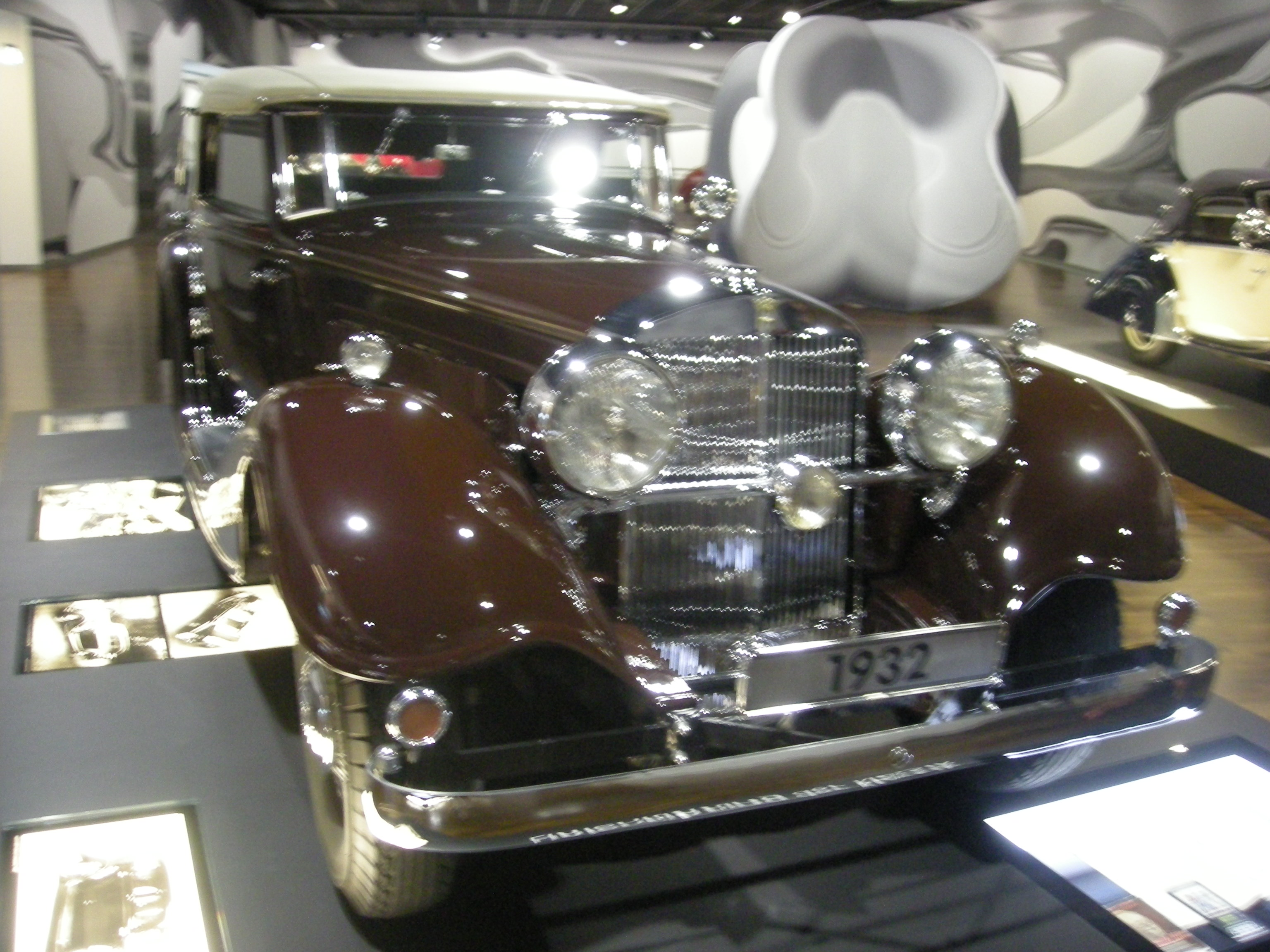 A 1932 Horch 670 V12 inside the ZeitHaus at Autostadt in Wolfsburg, Niedersachsen (Germany).